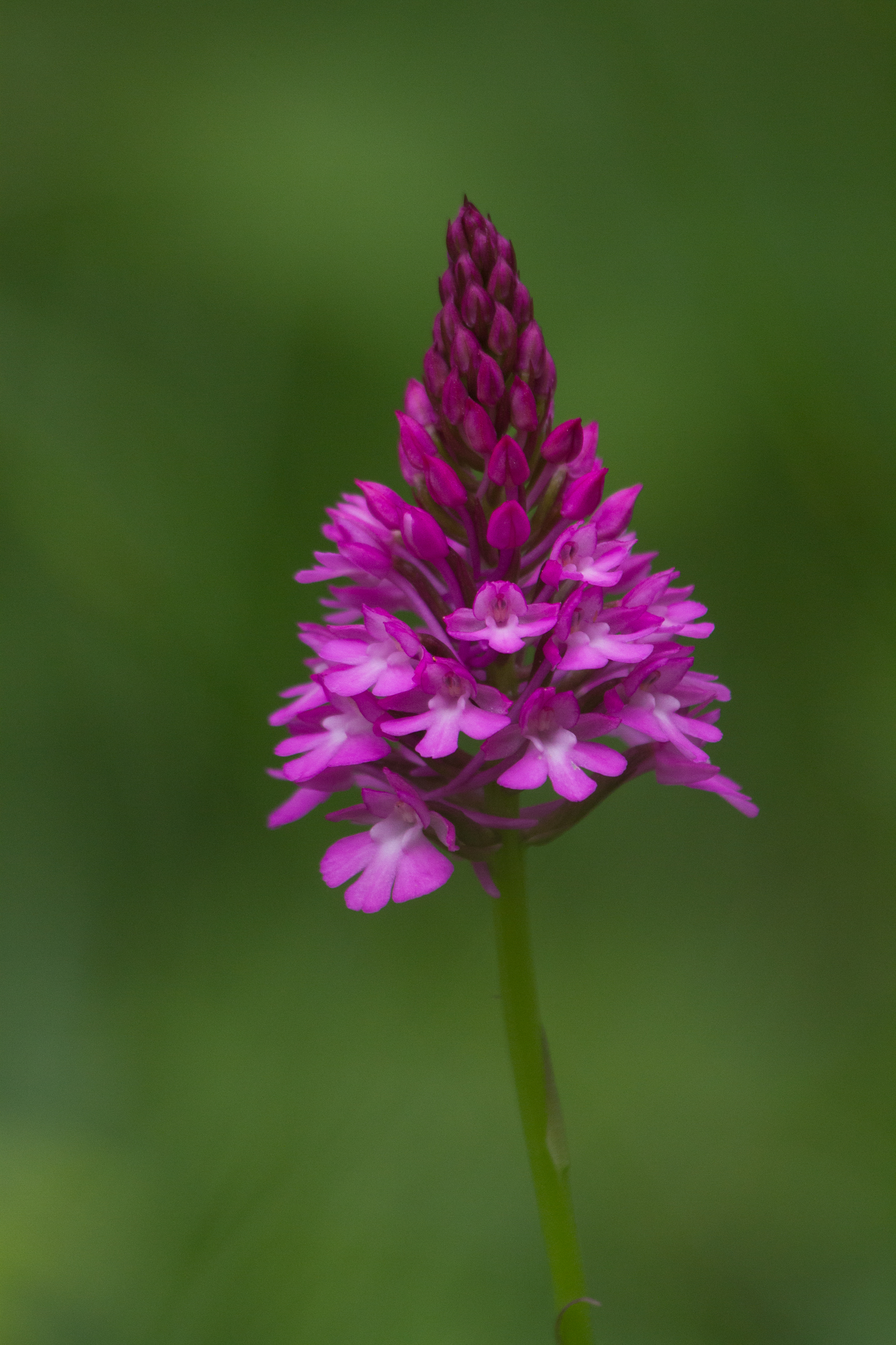 Anacamptis pyramidalis (inflorescence)